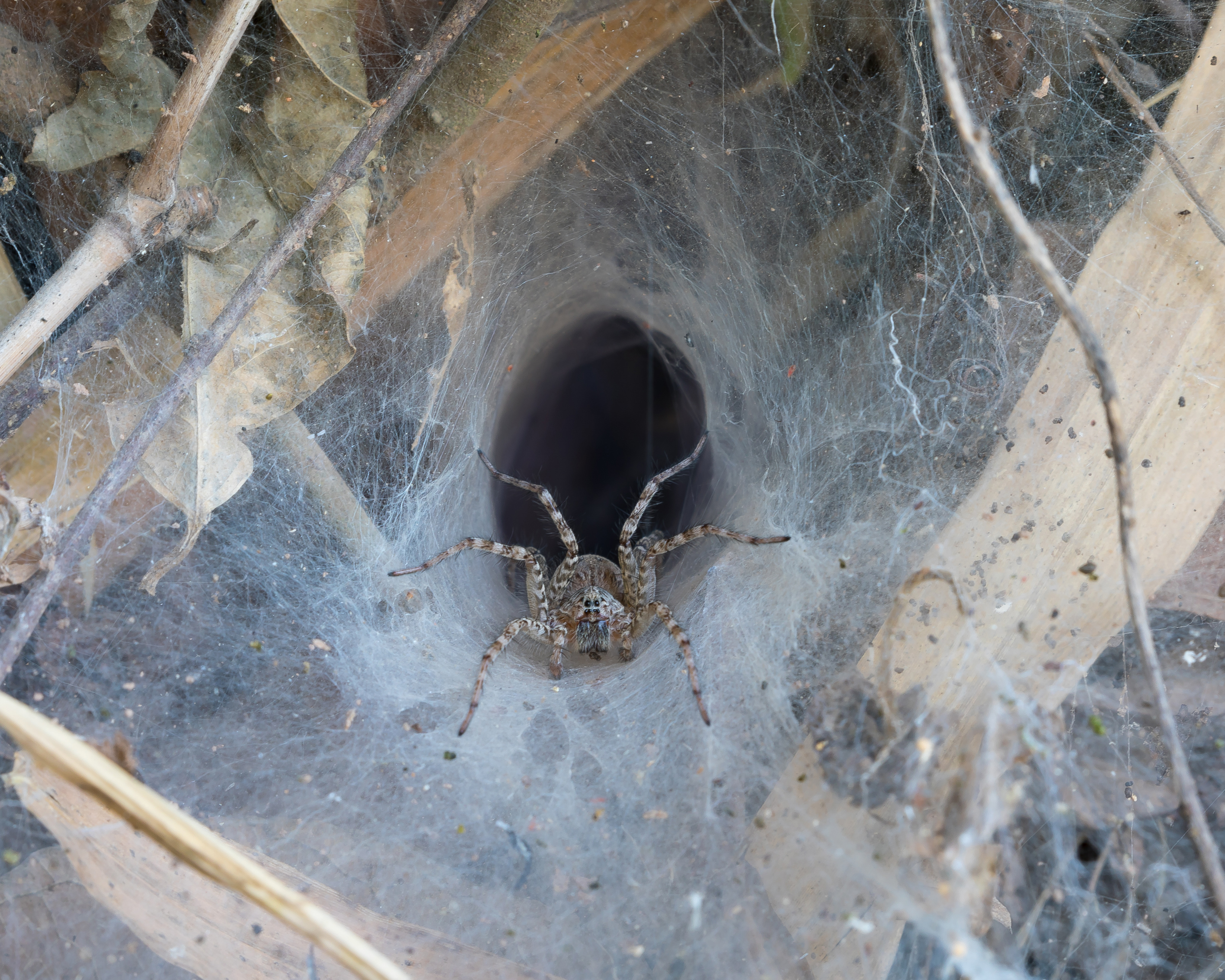 Hippasa holmerae (Lawn wolf spider) in its funnel web, seen in Don Som (Si Phan Don), Laos